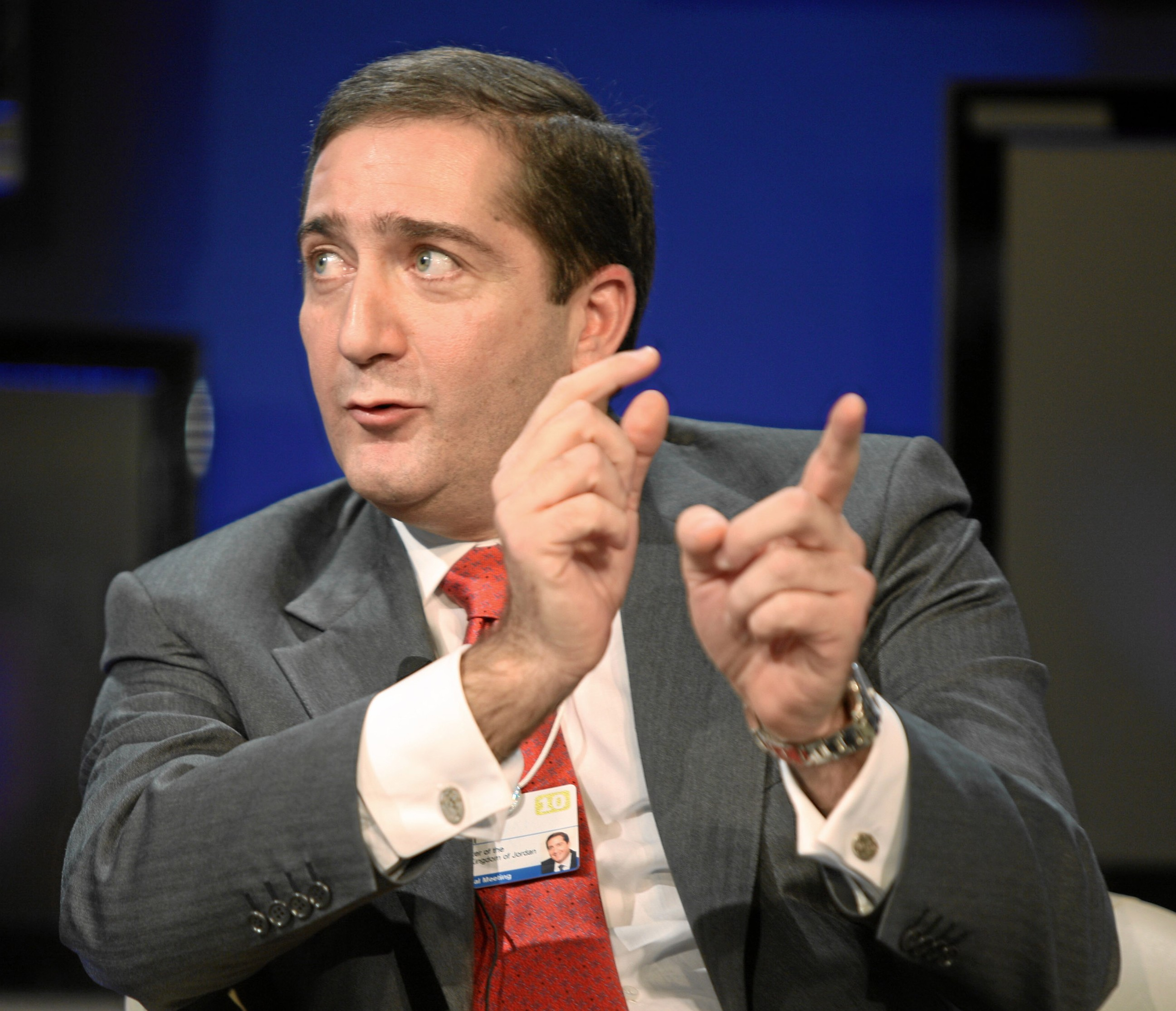 Samir Rifai, Jordanian politician